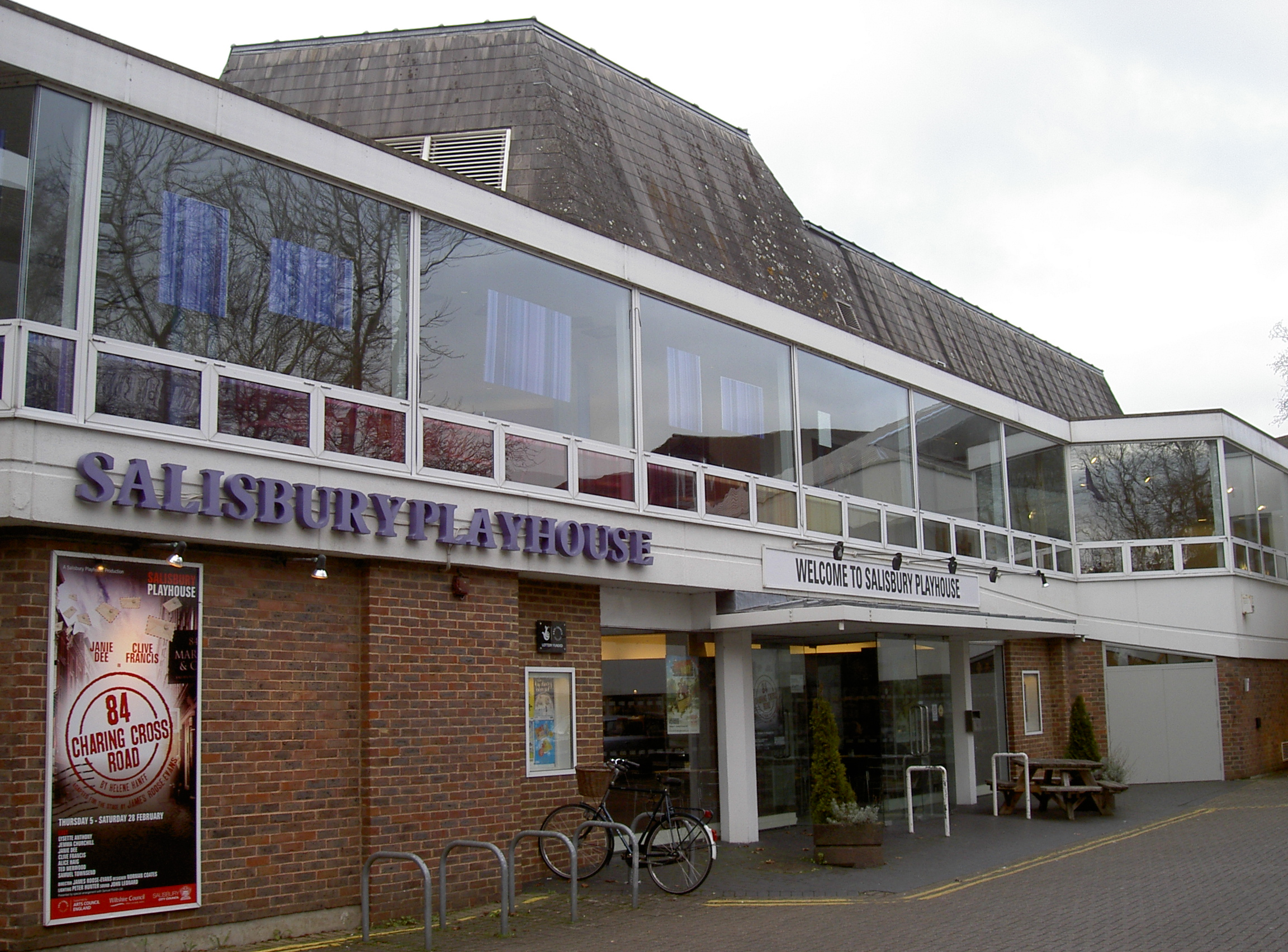 Salisbury Playhouse ; Salisbury has had a theatrical facility near this spot since 1915, but was subject to much rebuilding and financial perils. A campaign was launched in 1974 to fund a new theatre at The Maltings and on 30th November, 1976, this playhouse was opened by no less a luminary than Sir Alec Guinness. Despite worries with money again in 1995, the theatre is due to embrace a new extension soon.